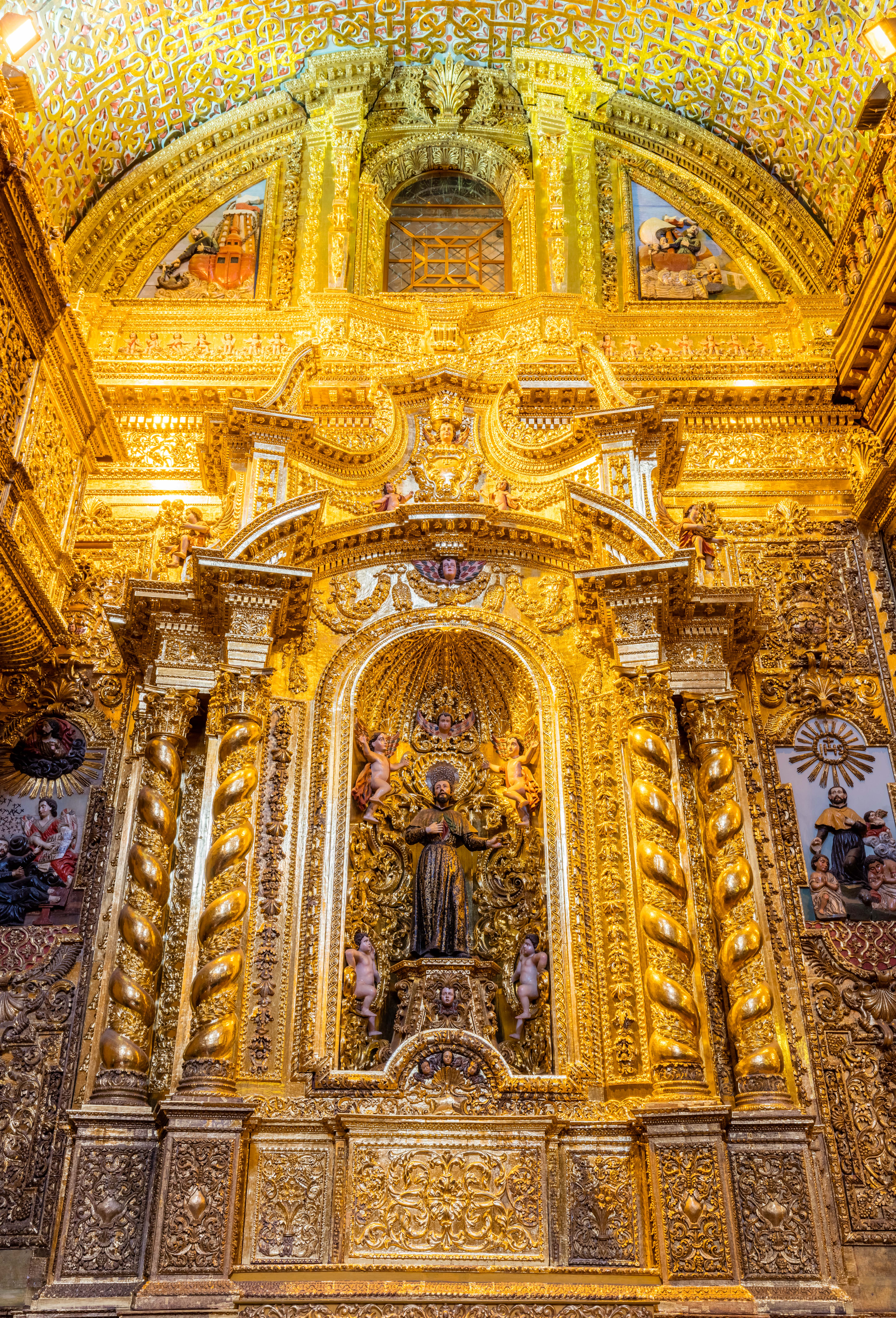 Church of the Society of Jesus, Quito, Ecuador